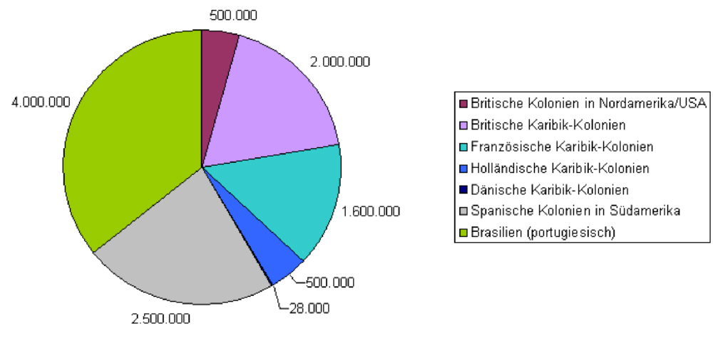 Pie chart, showing the major destinations for African slaves in the Americas, 1492-1870; data source: Andrew K. Frank: The Routledge Historical Atlas of the American South, New York, London: Routledge, 1999, ISBN 0-415-92141-4, p. 22